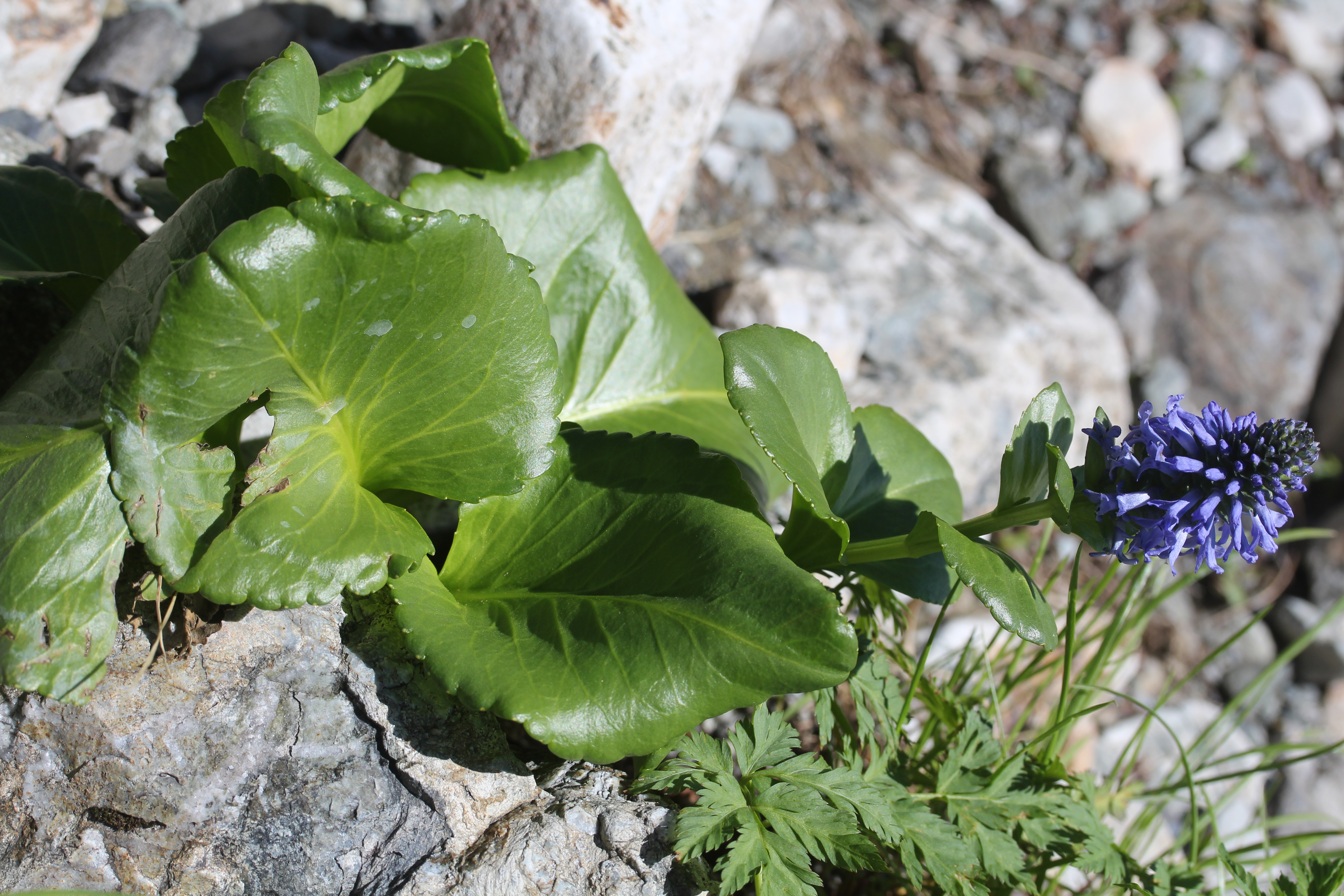 Lagotis glauca in Mount Shirouma, Hakuma, Nagano prefecture, Japan.